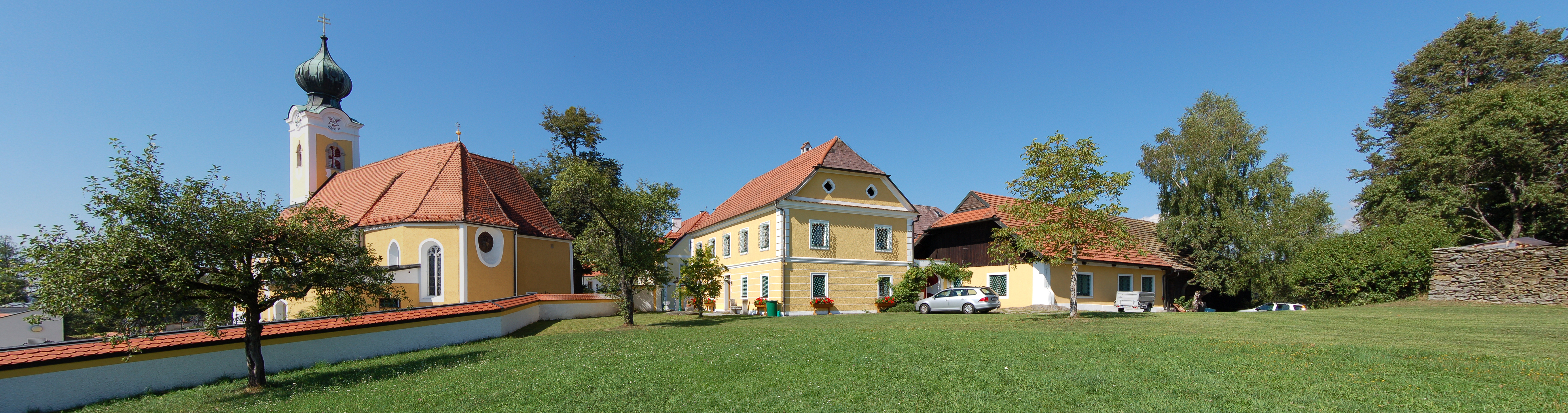 Pfarrkirche und Pfarrhof in St. Gotthard in Oberösterreich (St. Gotthard 1). The making of this work was supported by Wikimedia Austria. For other files made with the support of Wikimedia Austria, please see the category Supported by Wikimedia Österreich.